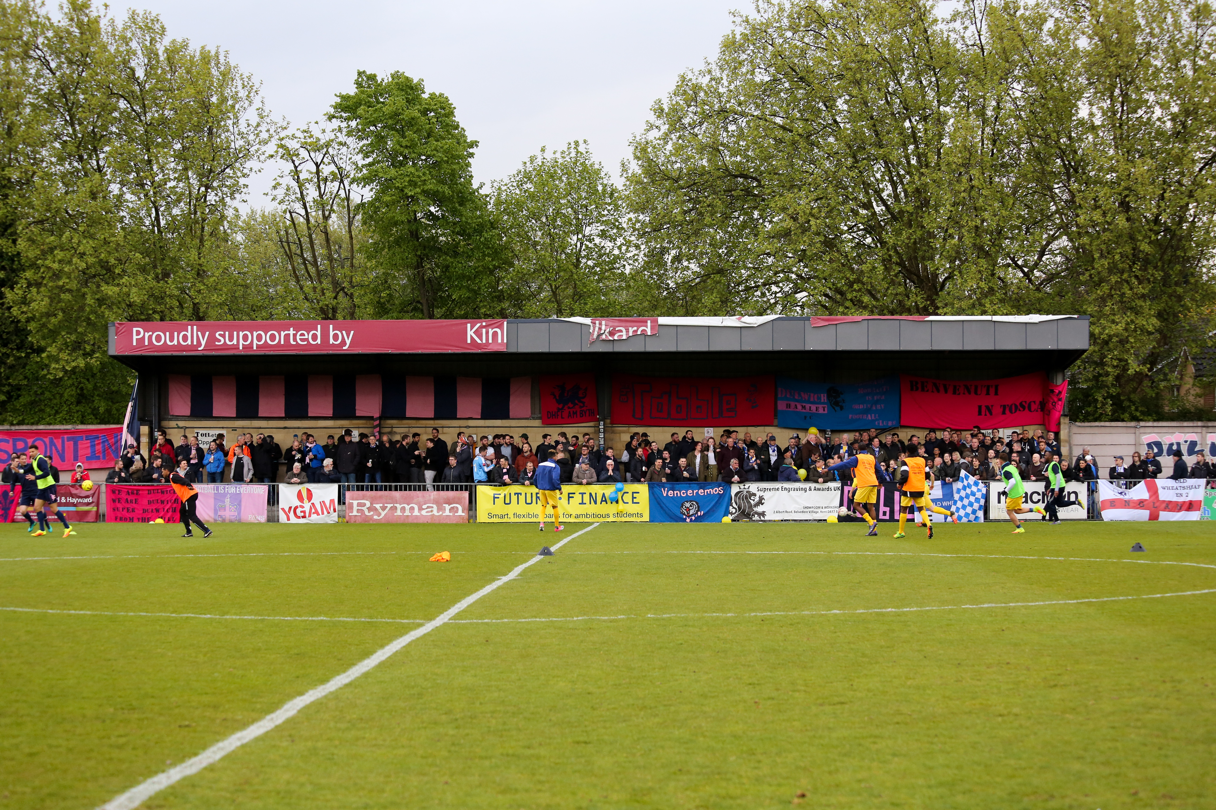 Dulwich Hamlet v Enfield Town, 27 April 2017